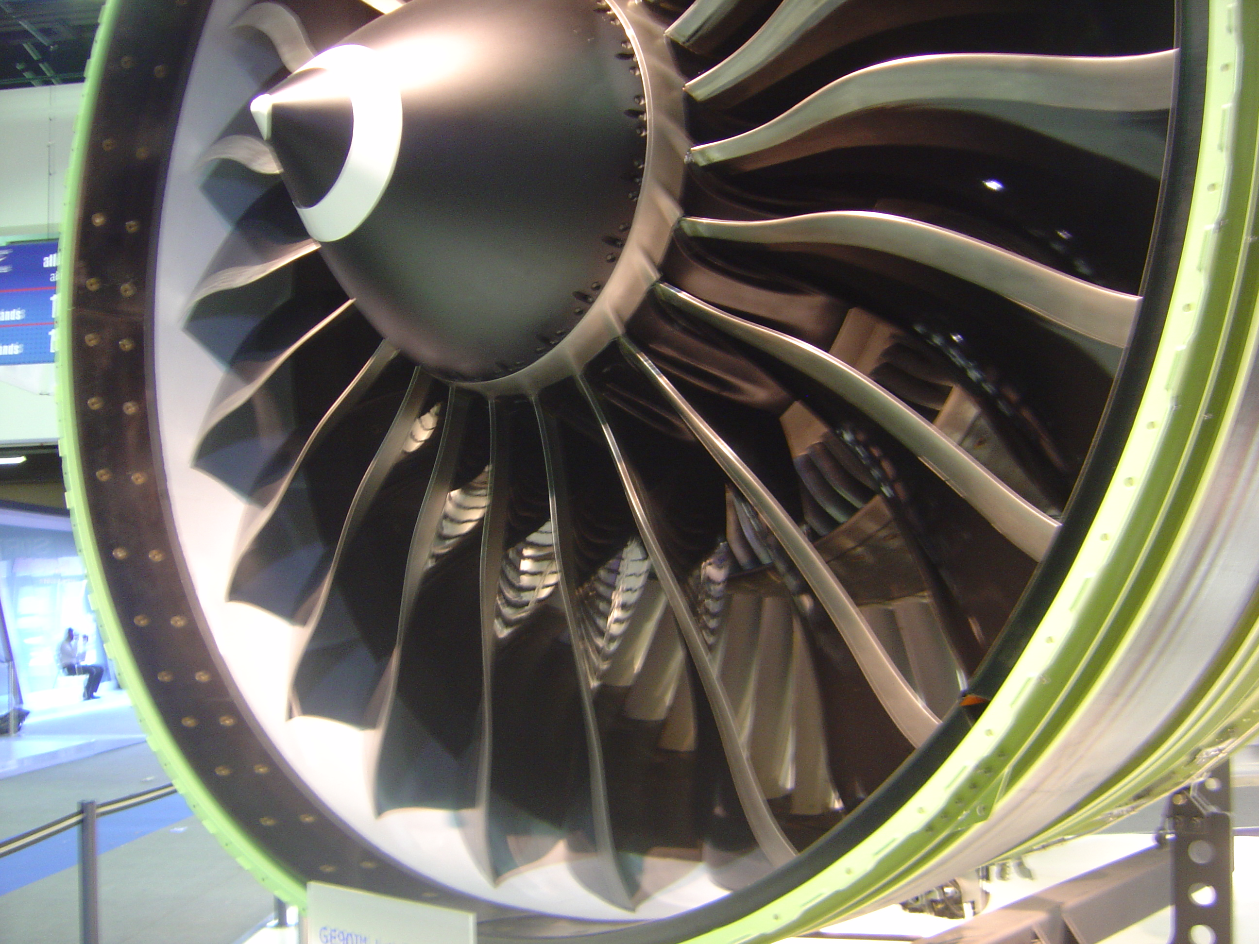 GE90 engine: detail of front fan Paris Air Show, 2005